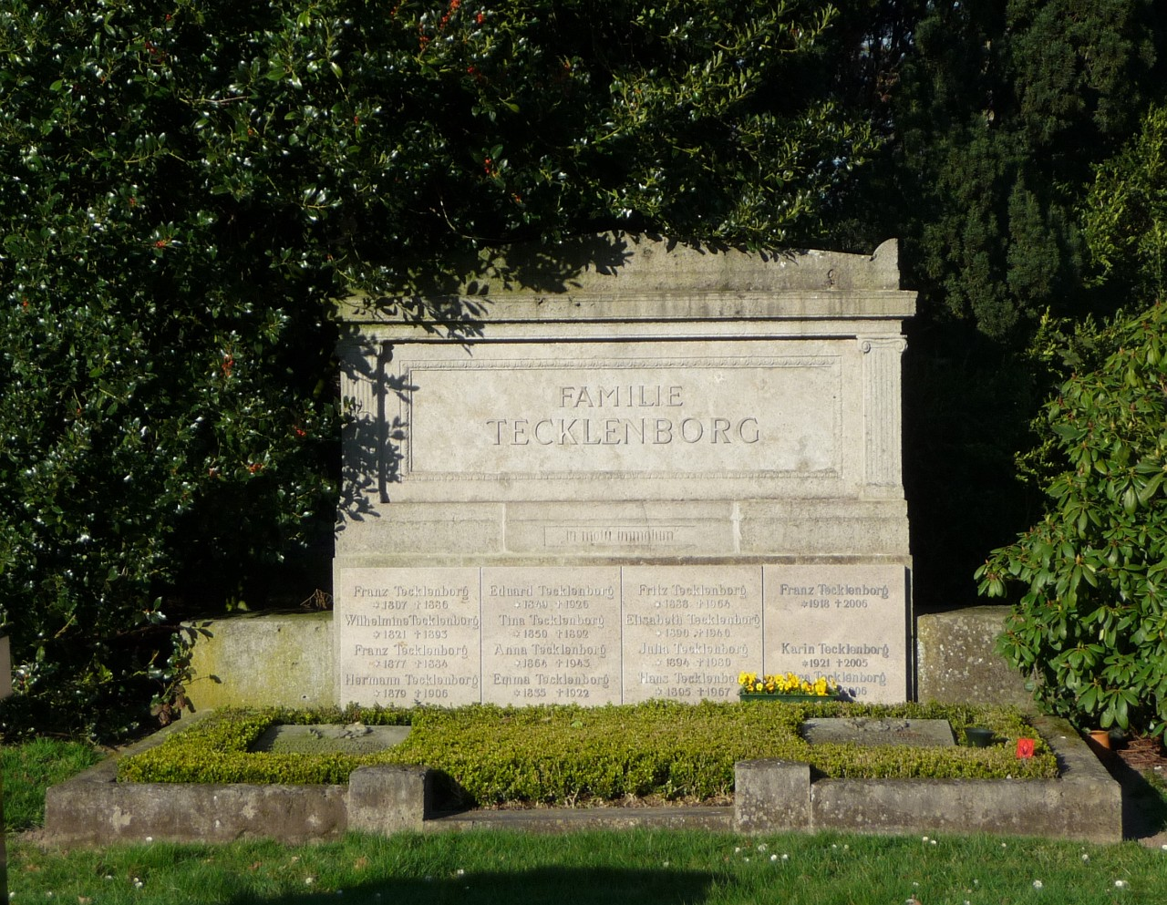 tomb of the family Tecklenborg on the cemetery in Bremen-Walle